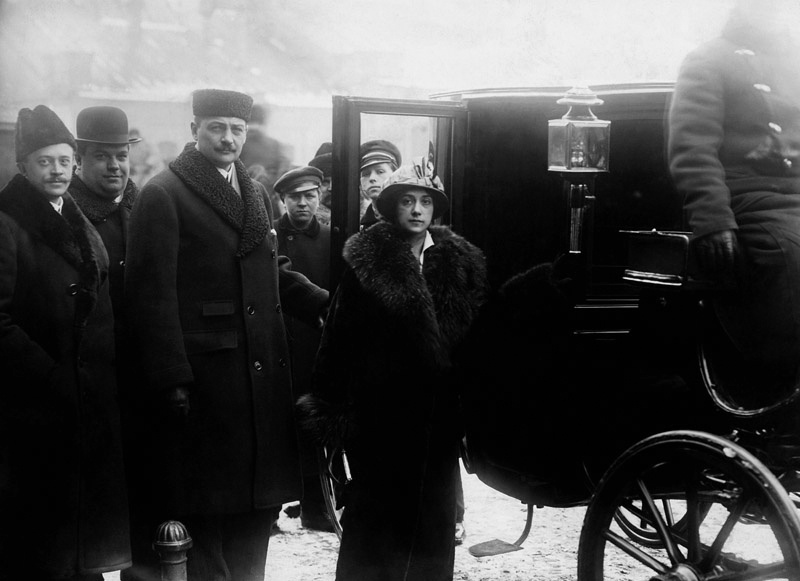 Return of ballerina Tamara Karsavina to Petrograd